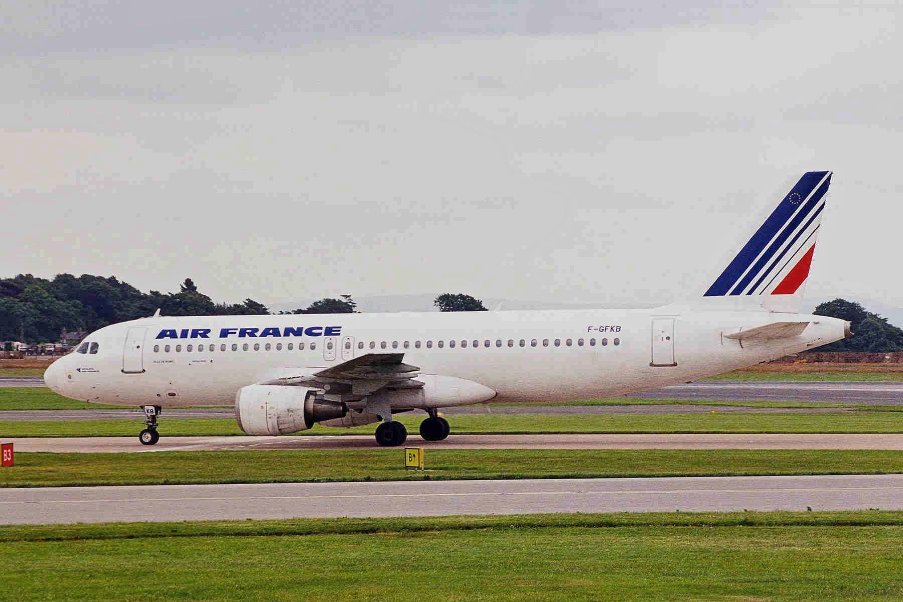 A picture of an airplane (name of it is on the file name).